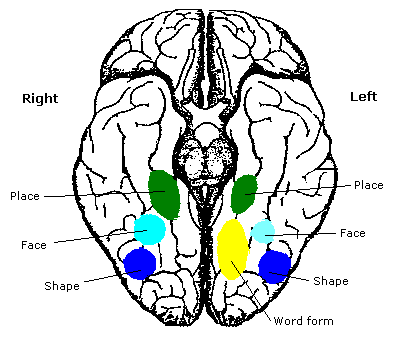 Some brain areas in human brain, inferior view